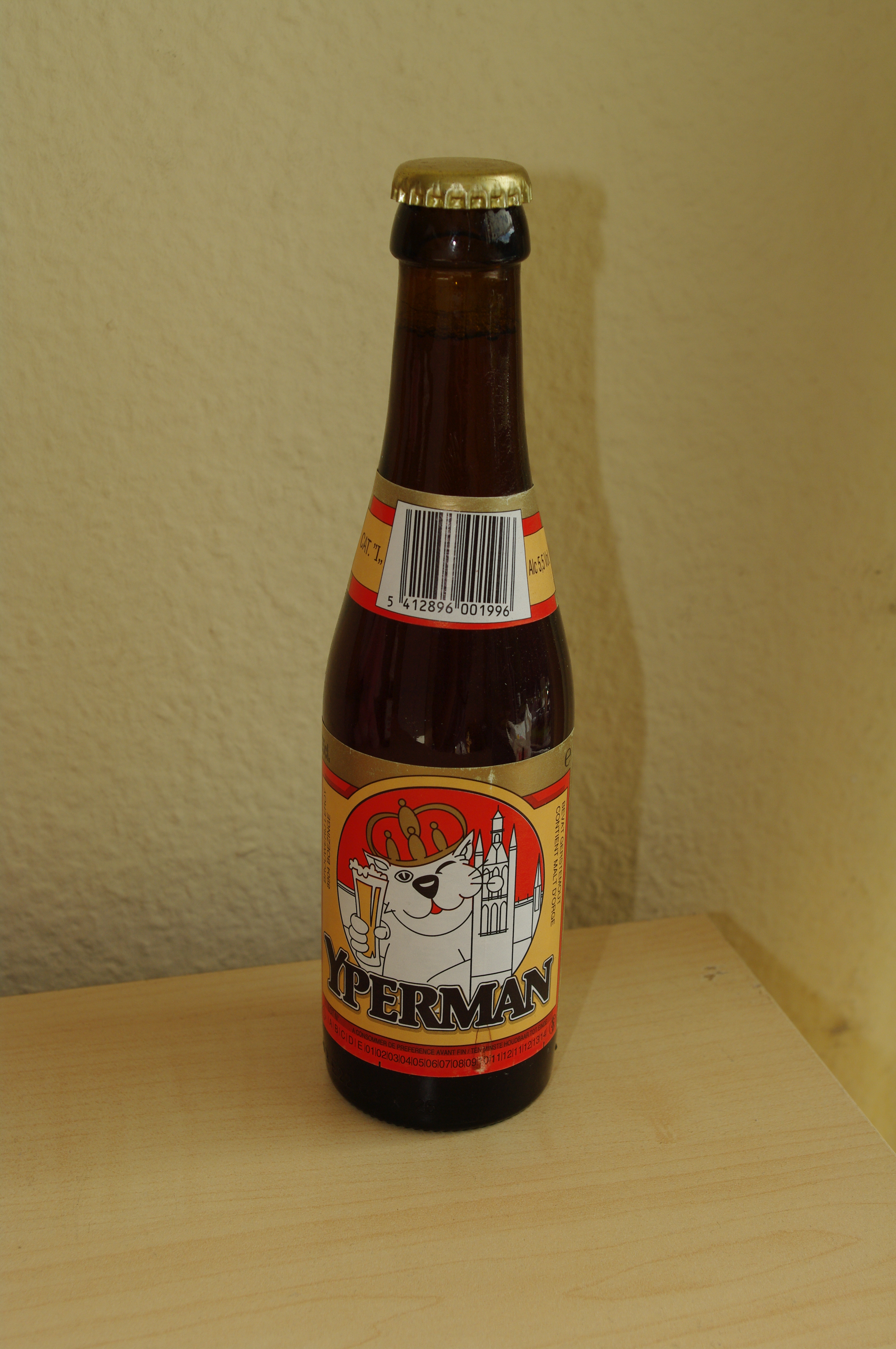 Yperman beer